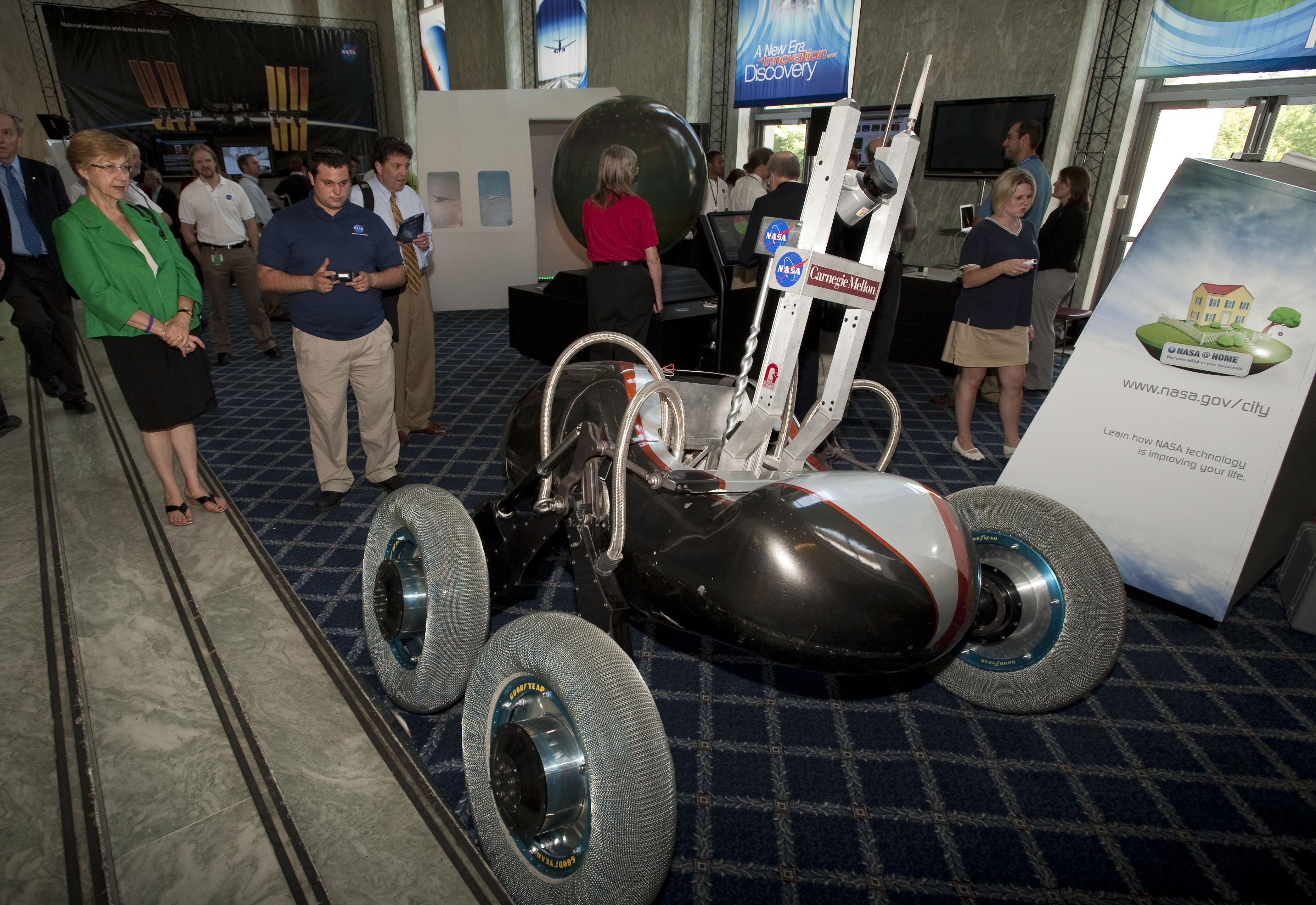 Pictured is Scarab, a new generation lunar rover designed to assist astronauts take rock and mineral samples and explore the lunar surface.